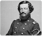 Thomas Leiper Kane, an American attorney, abolitionist, and military officer who was influential in the western migration of the Latter-day Saint movement and served as a Union Army colonel and general of volunteers in the American Civil War. He received a brevet promotion to major general for gallantry at the Battle of Gettysburg.